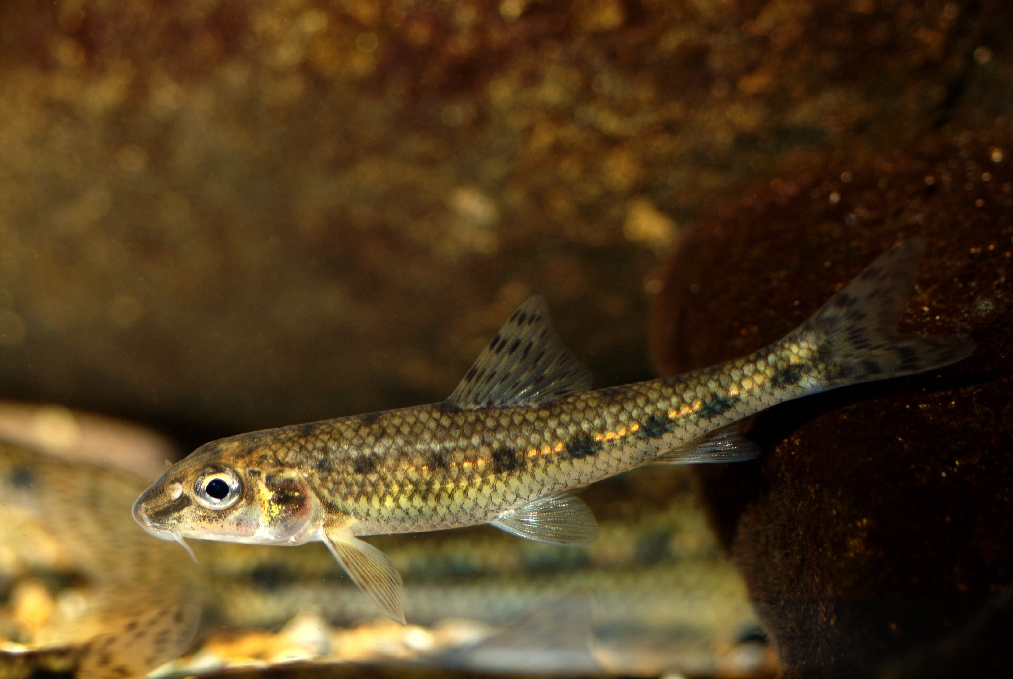 Gudgeon.